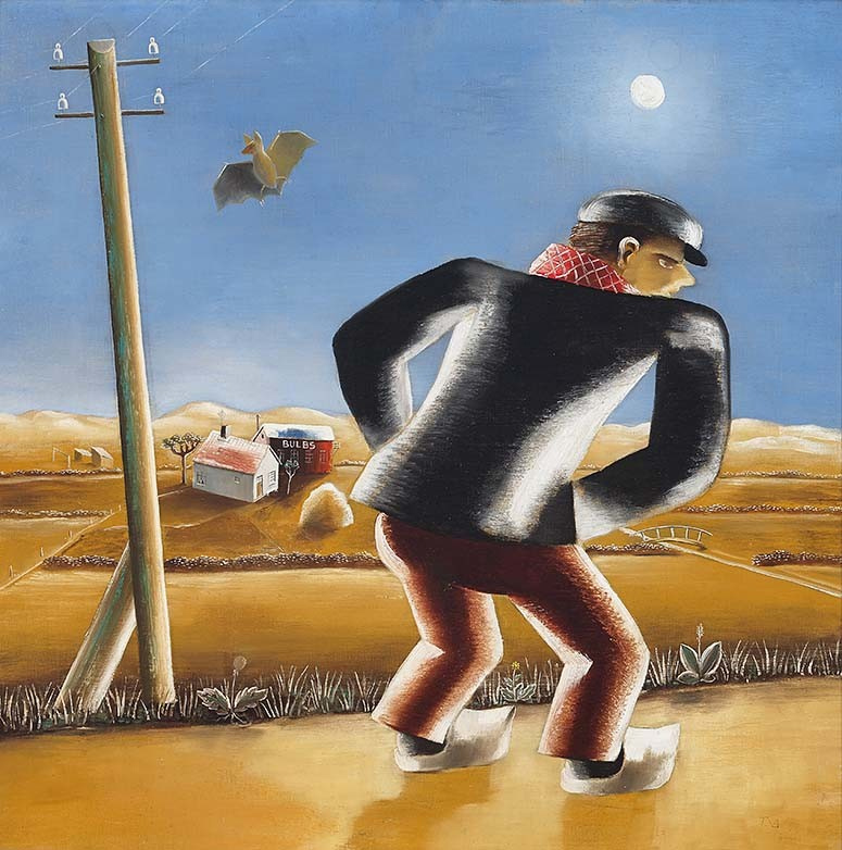 Farmer in the moonlight